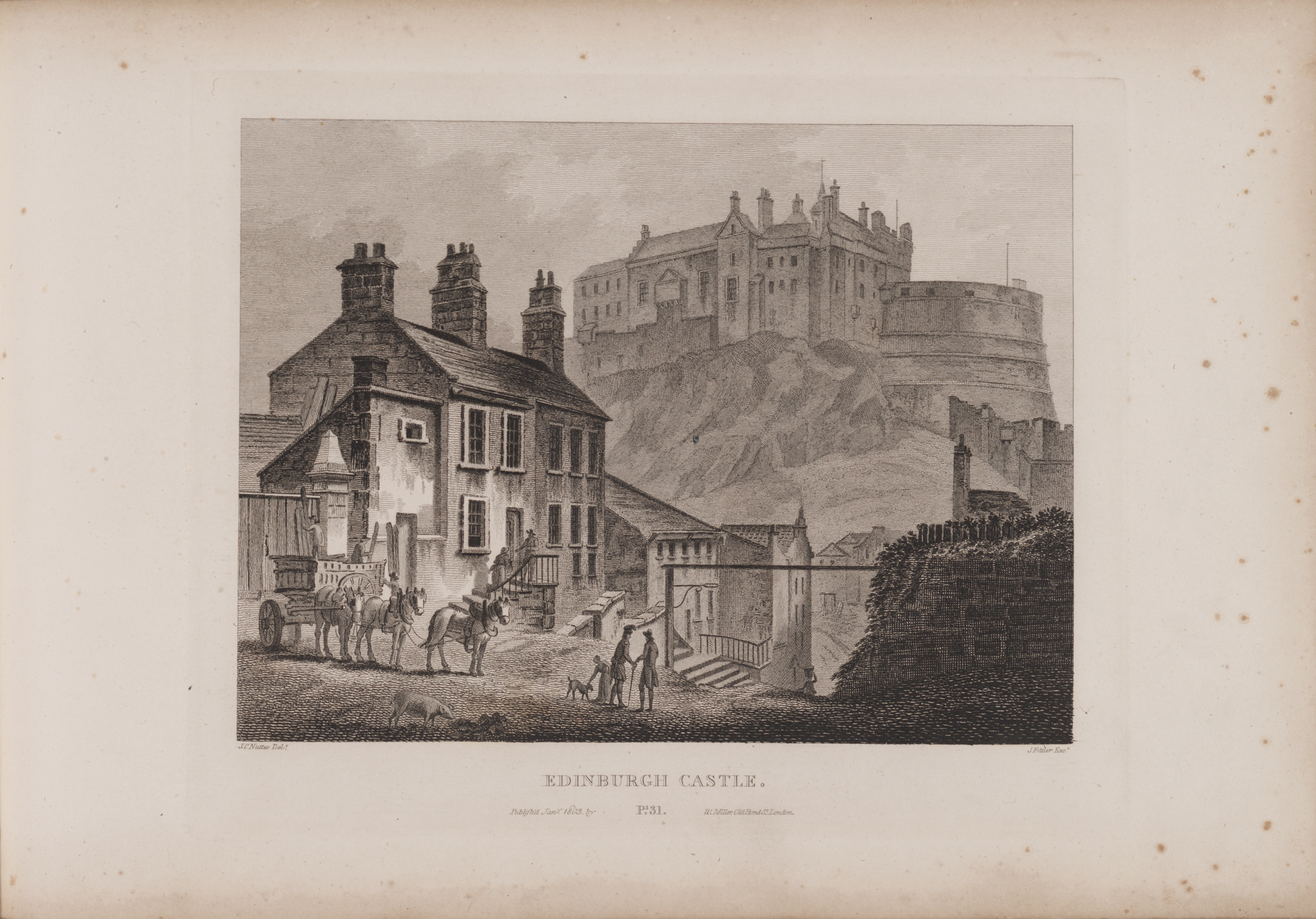 Plate XXXI/b - John Claude Nattes made drawings of suitable scenes on the spot; etchings are by James Fittler.